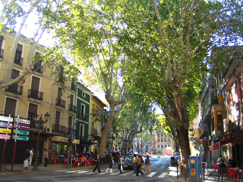 Avenue of Xativa, County Costera, Region of Valencia, Spain.